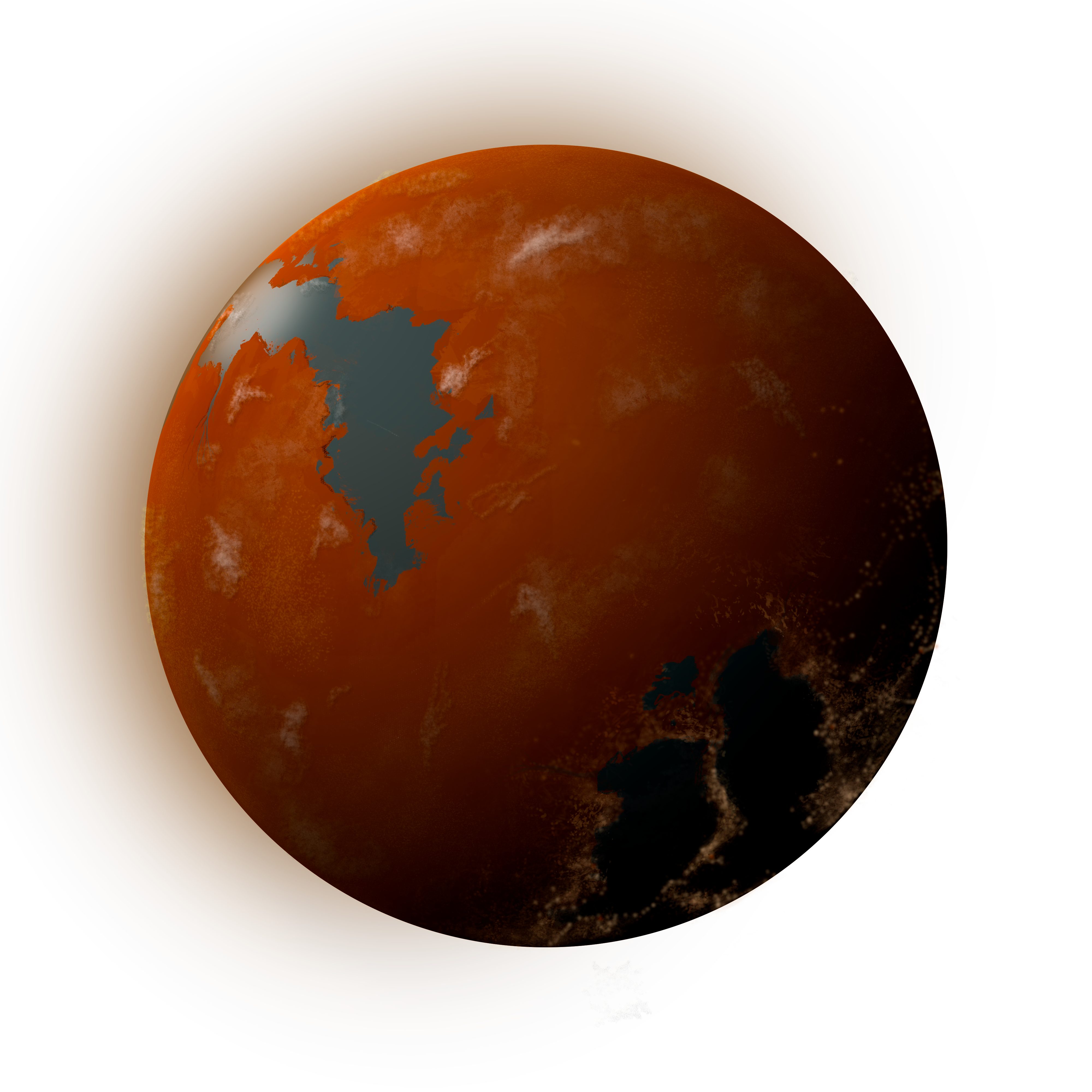 An artist's impression of the fictional Planet Vulcan.